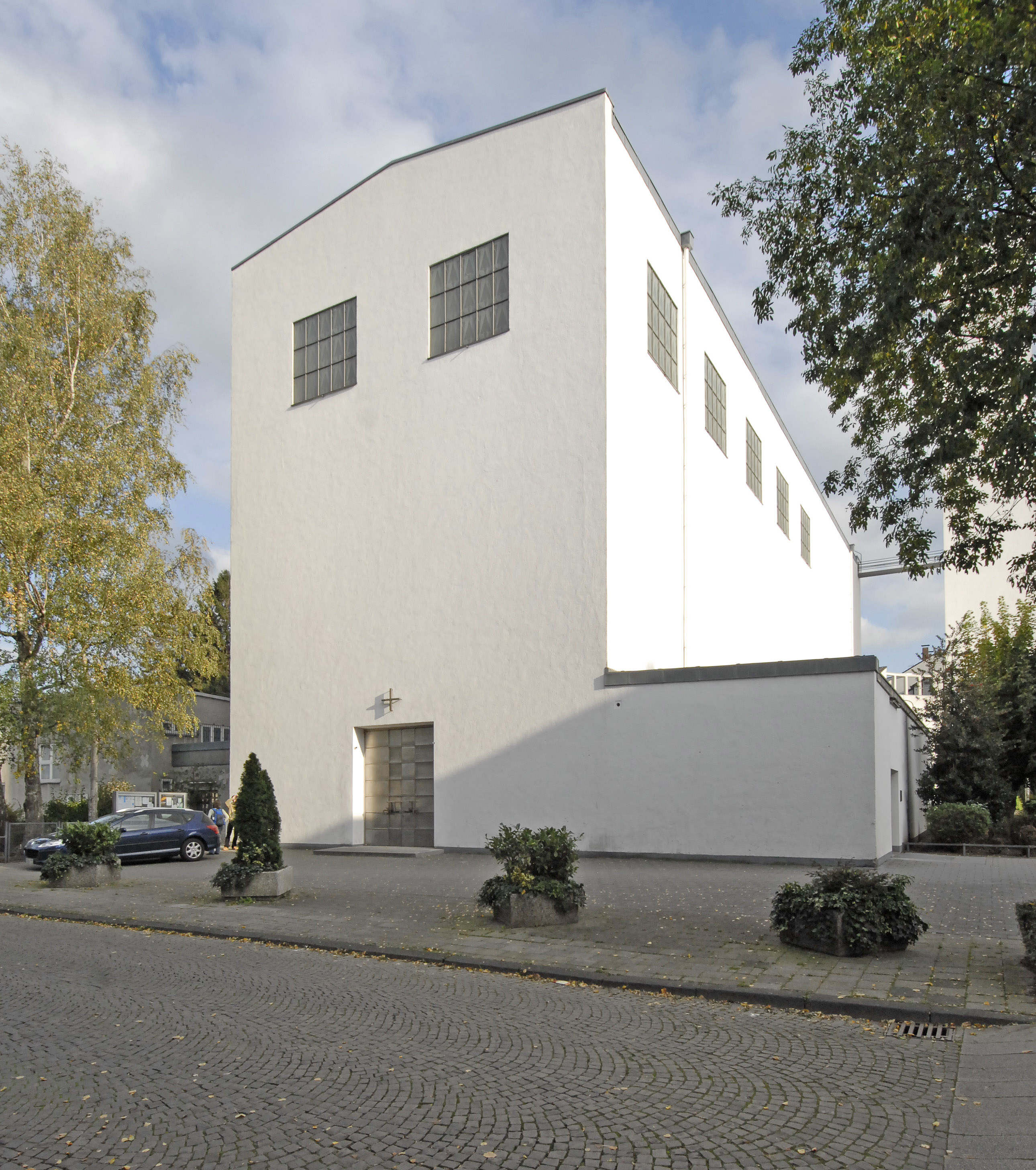 Church Corpus Christi in Aachen by Architect Rudolf Schwarz